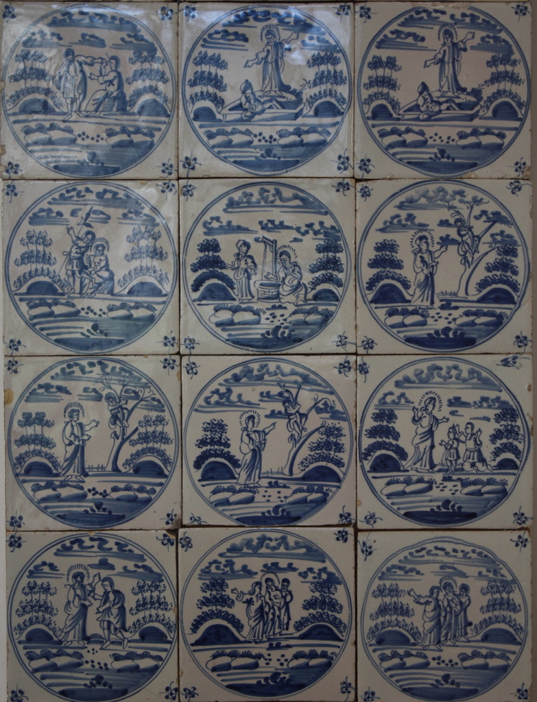 Gdańsk, National Museum, Dutch decorated tiles